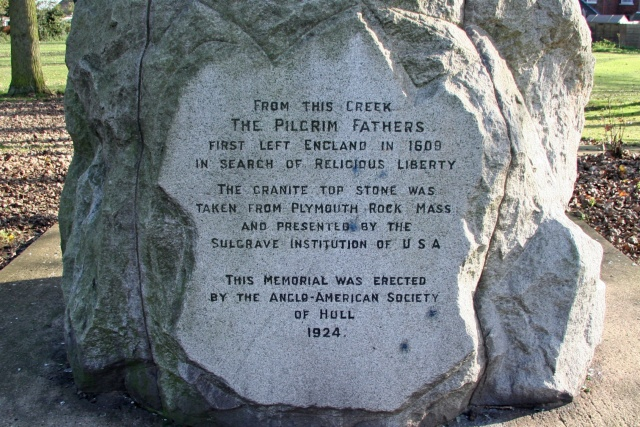 Pilgrims Memorial, Immingham. A closeup of the wording on the Pilgrims Memorial in Pilgrim Park, Immingham. The plaque refers to the original location of the memorial at Immingham Creek in 1924. It was moved to its current location, opposite St Andrews Church in Immingham in 1970, during the expansion of Immingham Docks around the original site.